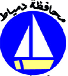 Emblem of the Damietta Governorate.